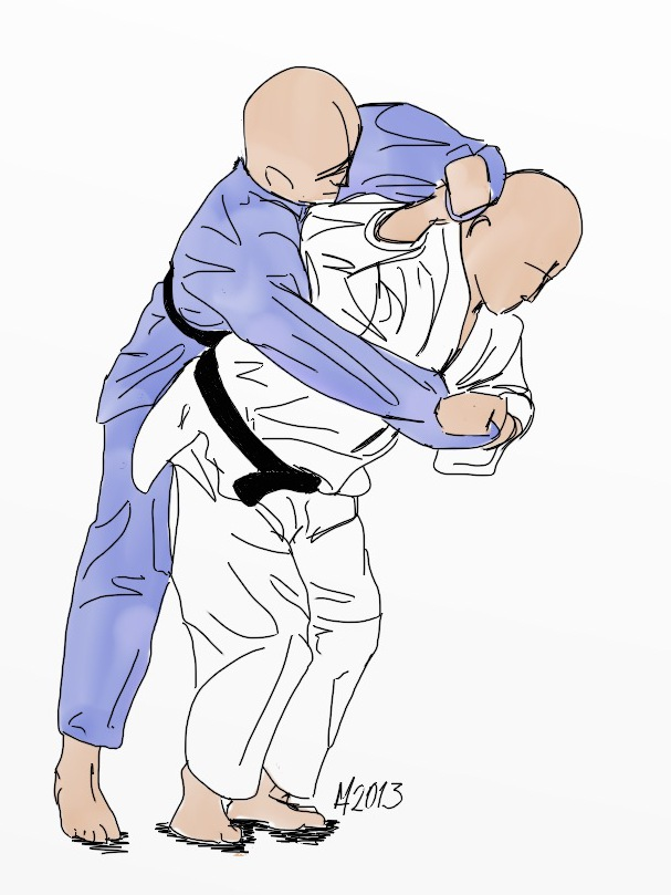 Illustration of the judo throw sode-tsuri-komi-goshi, or sleeve-hip-throw.